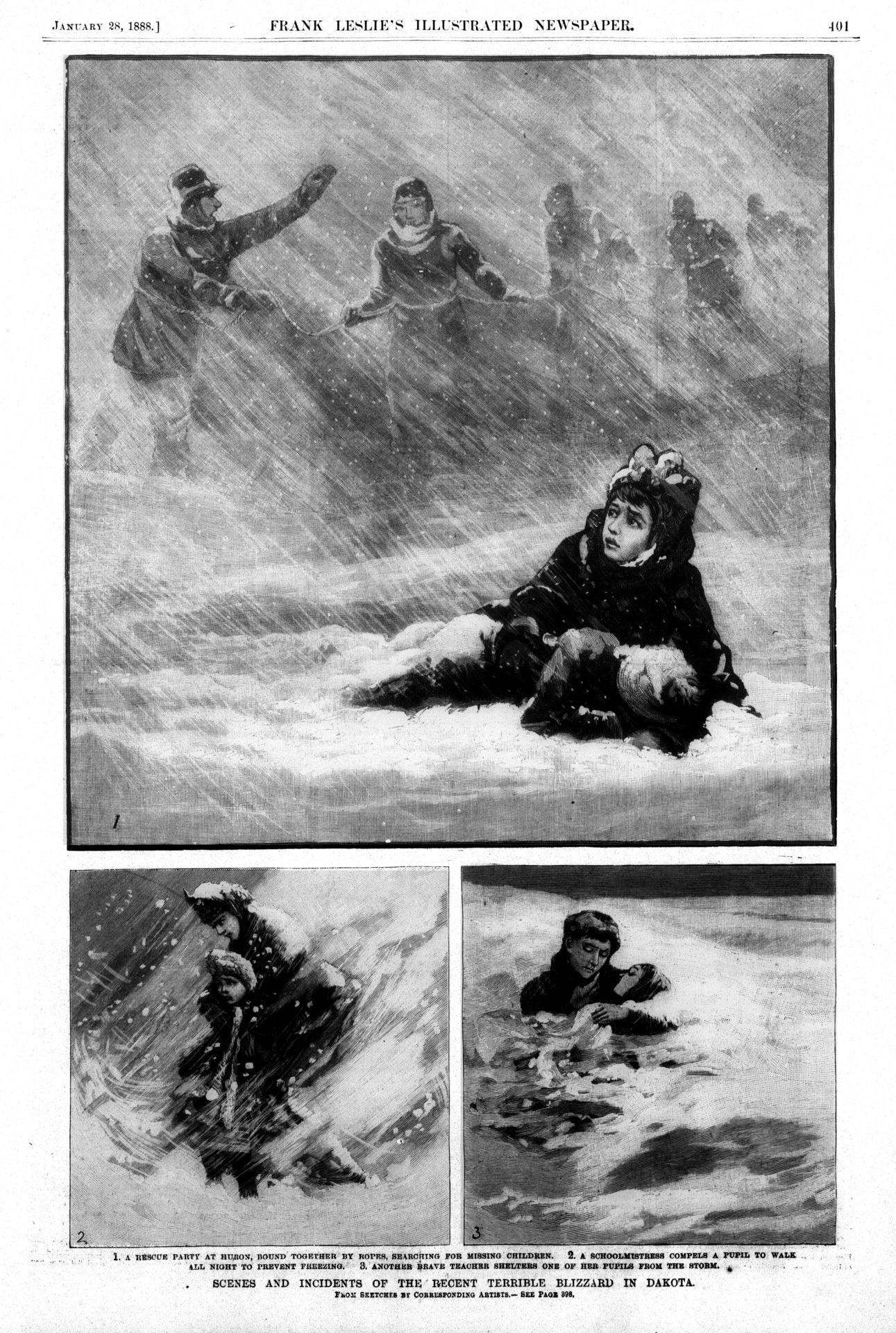 Scenes and Incidents from the Recent Terrible Blizzard in Dakota on January 12, 1888 - The storm came with no warning, and some accounts say that the temperature fell nearly 100 degrees in just 24 hours. The blizzard killed 235 people including many children.